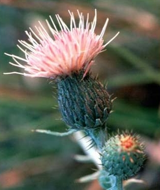 Cirsium pitcheri flower